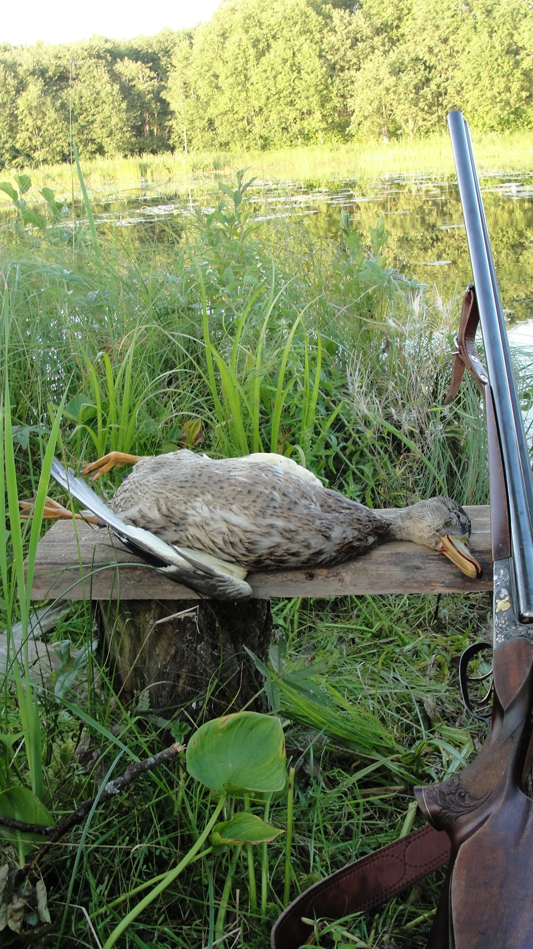 A mallard shot in Tver region, Russia. The gun is of IZh-43 model.